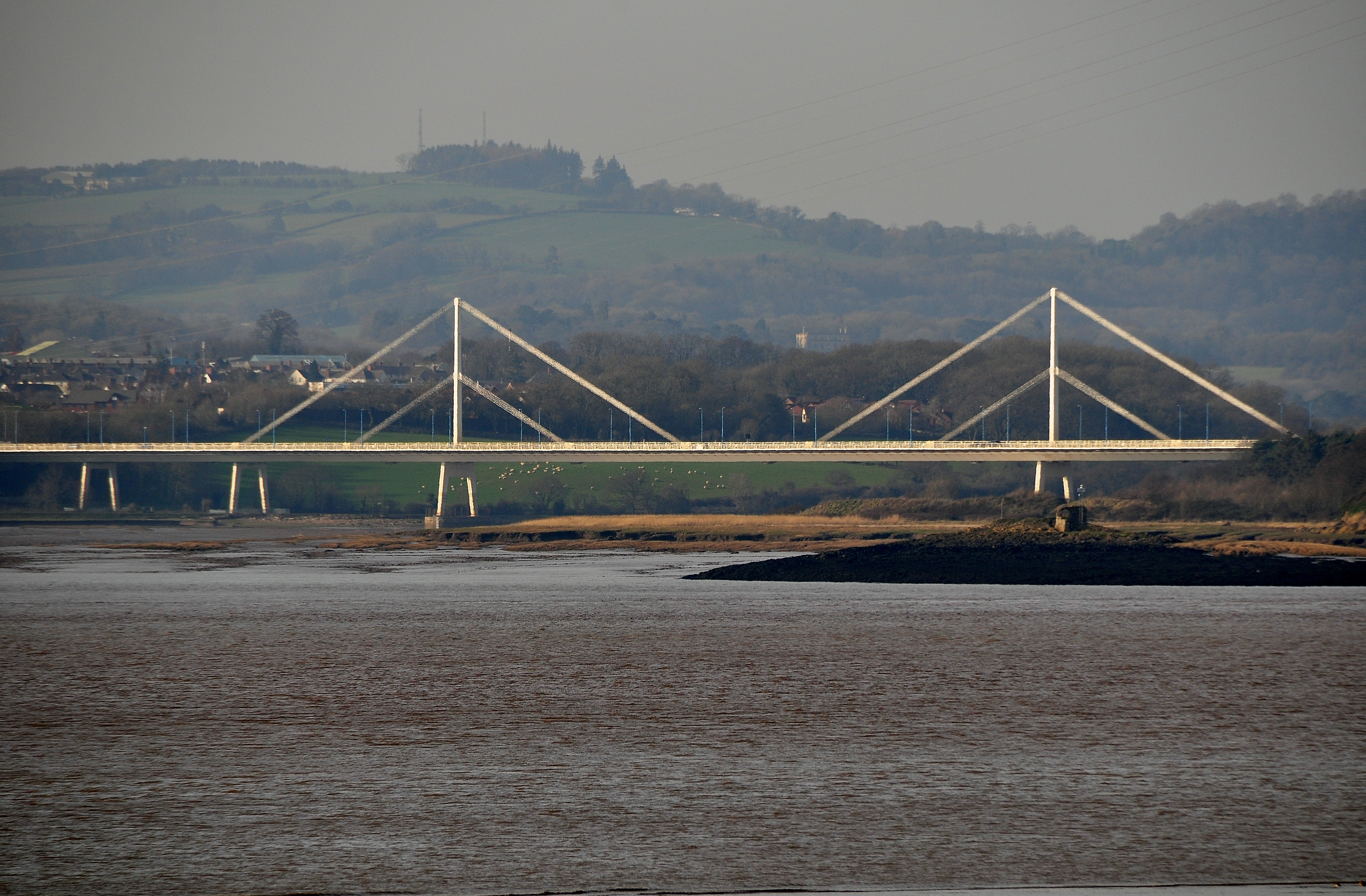 South Gloucestershire : Wye Bridge